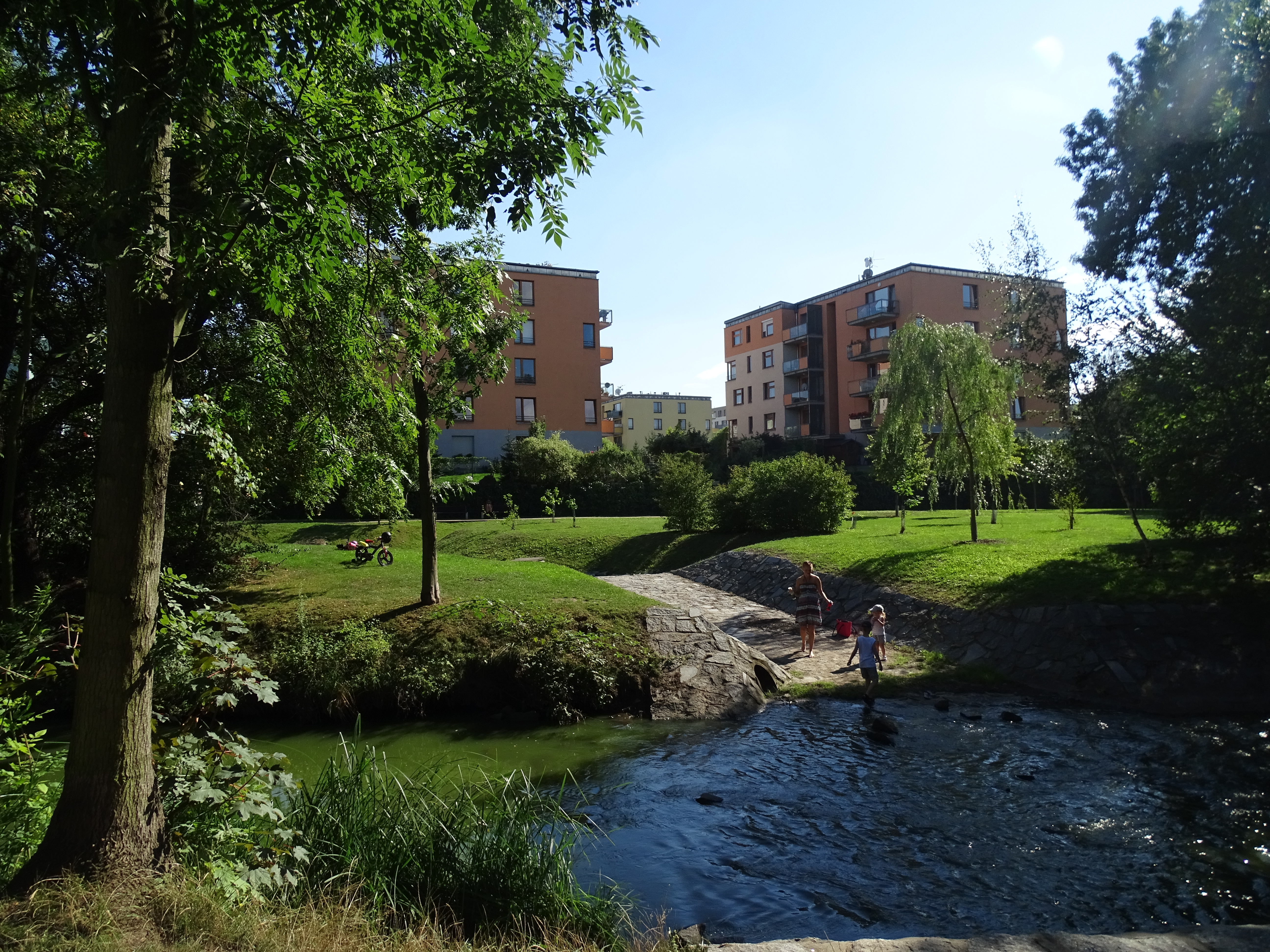 Prague-Hloubětín, Czech Republic. Rokytka creek.